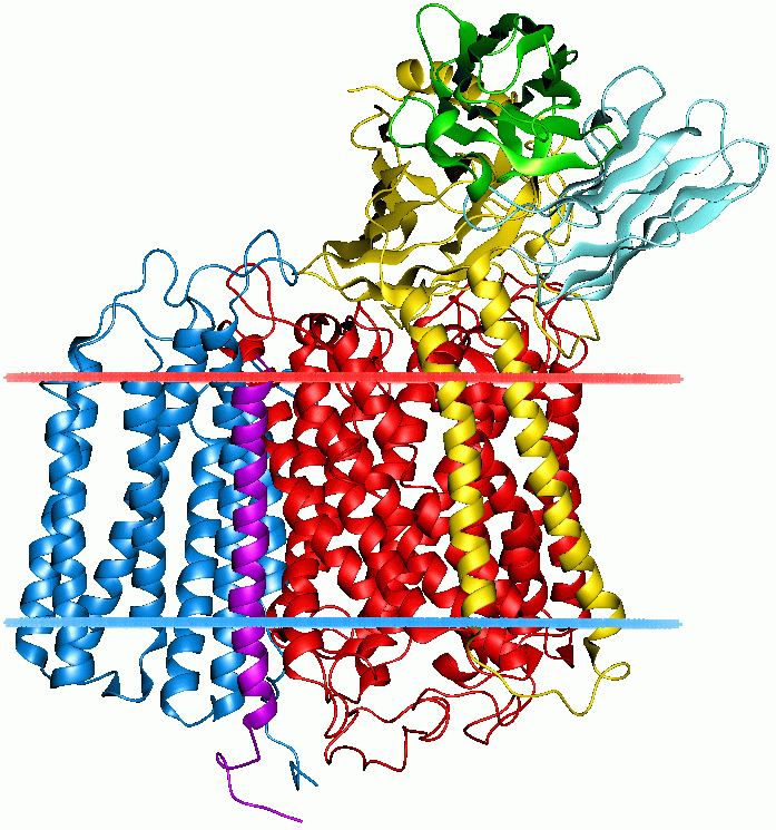 Protein image from OPM database